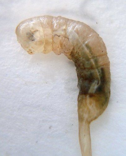 photo taken by Jacqueline Sarratt